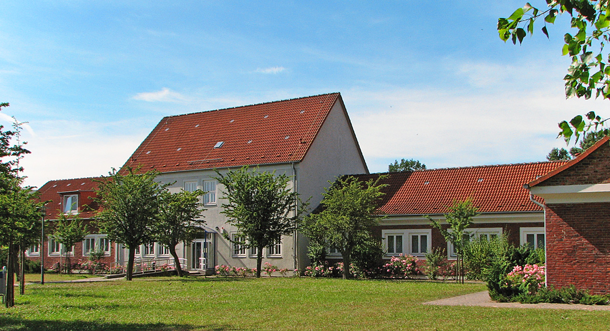 This image shows the library of the university of applied sciences in Stralsund.